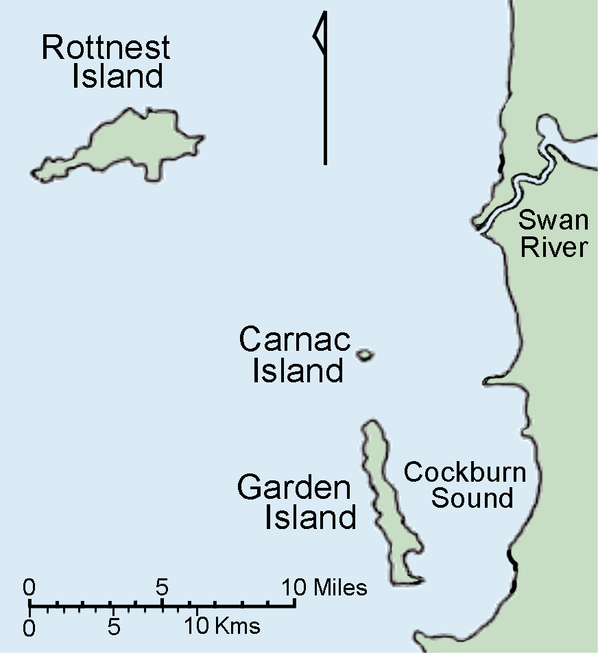 West coast of Australia, by Swan River, for use in James Stirling article